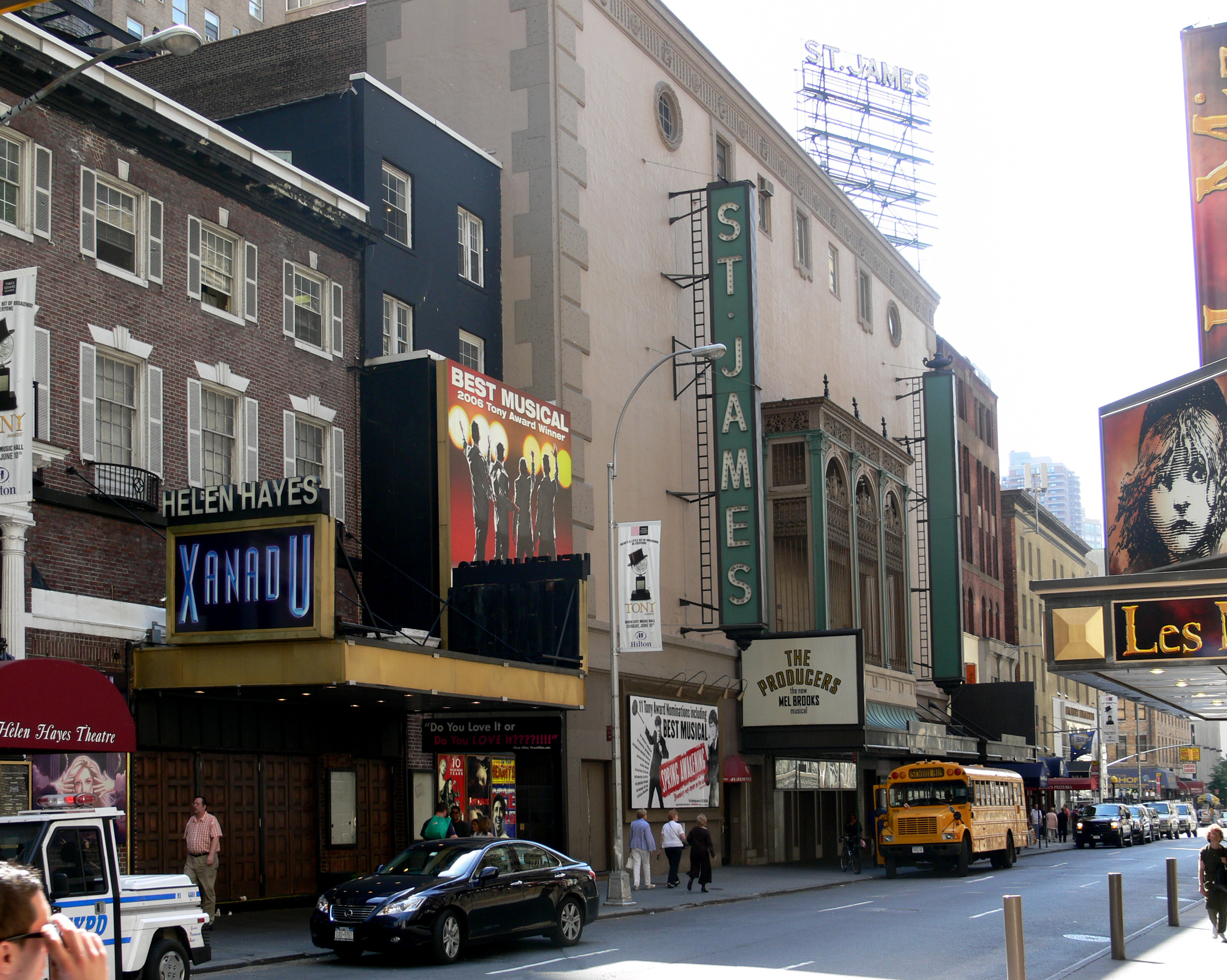 left: Helen Hayes Theatre, center: St. James Theatre; the canopy advertising Les Misérables on the very right is part of the Broadhurst Theatre St. James Theatre: 246 W. 44th Street, Manhattan, New York City